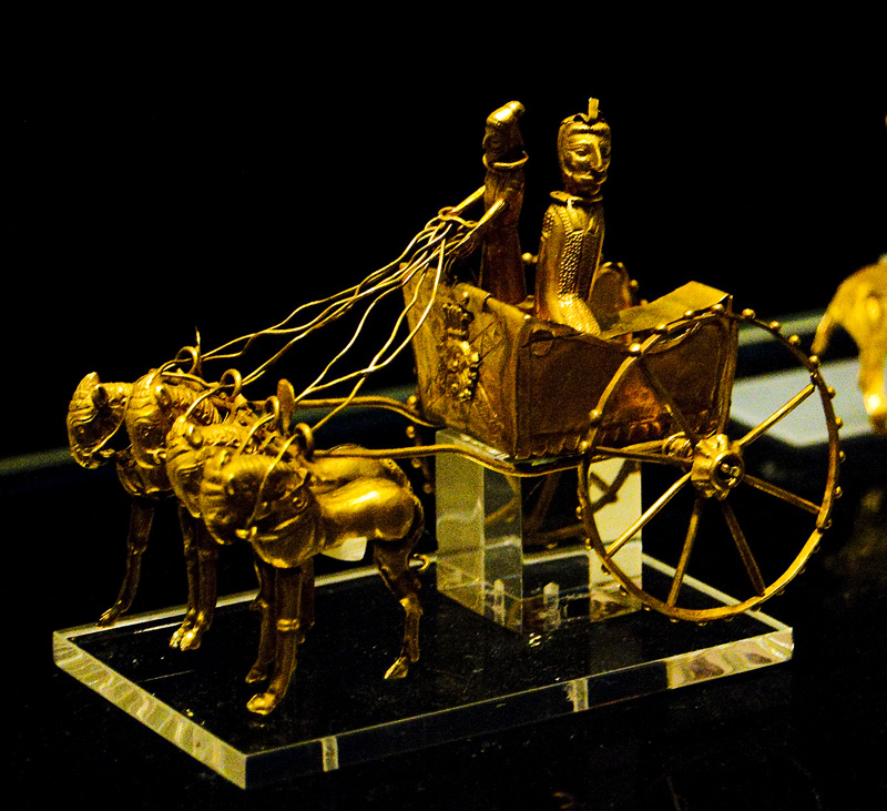 A gold horse drawn chariot model from the Oxus treasure of the Persian Achaemenid Empire. This rare piece of Achaemenid art is now located in the Persian Empire collection of the British Museum.